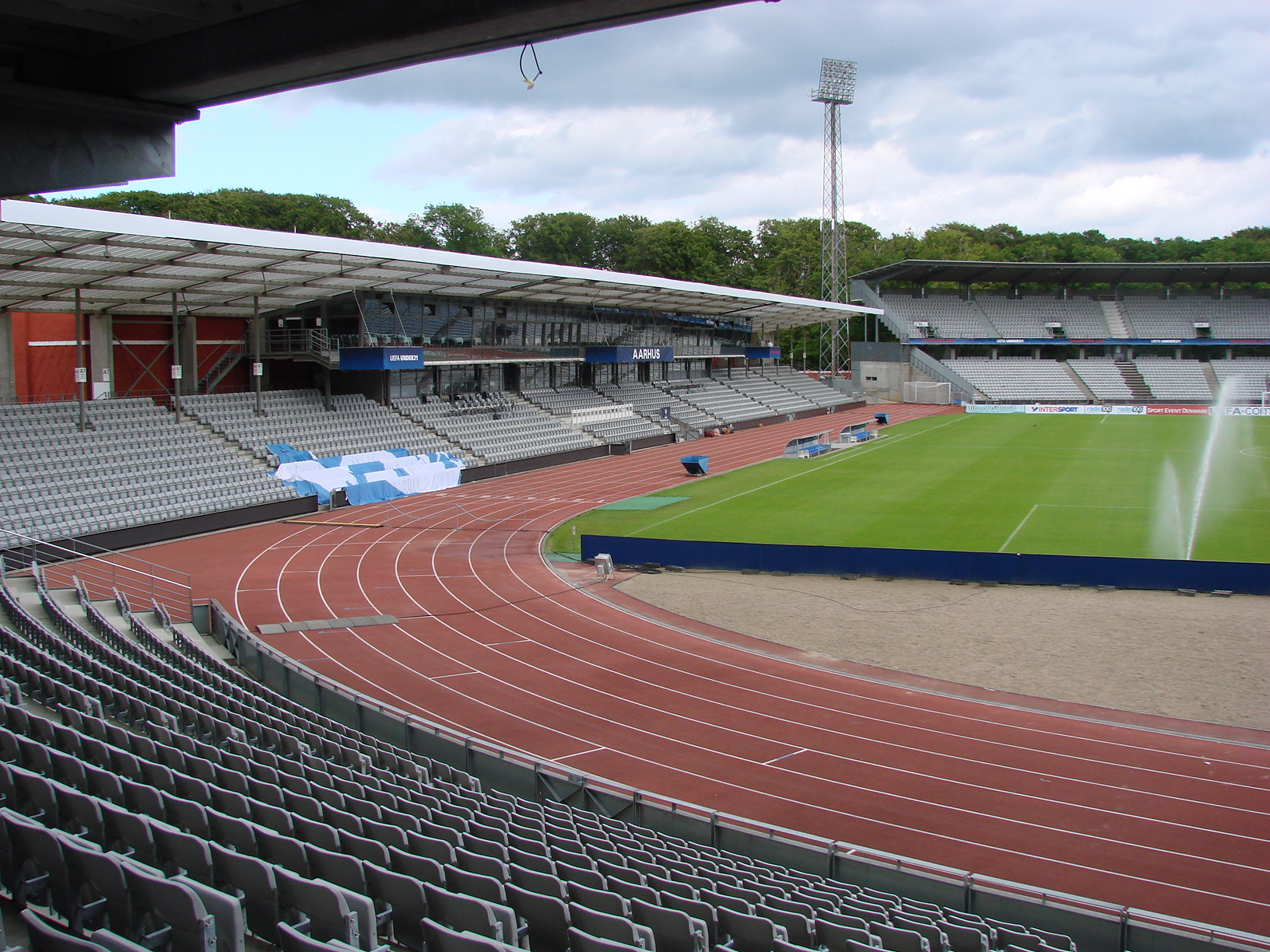 stadion aarhus gf